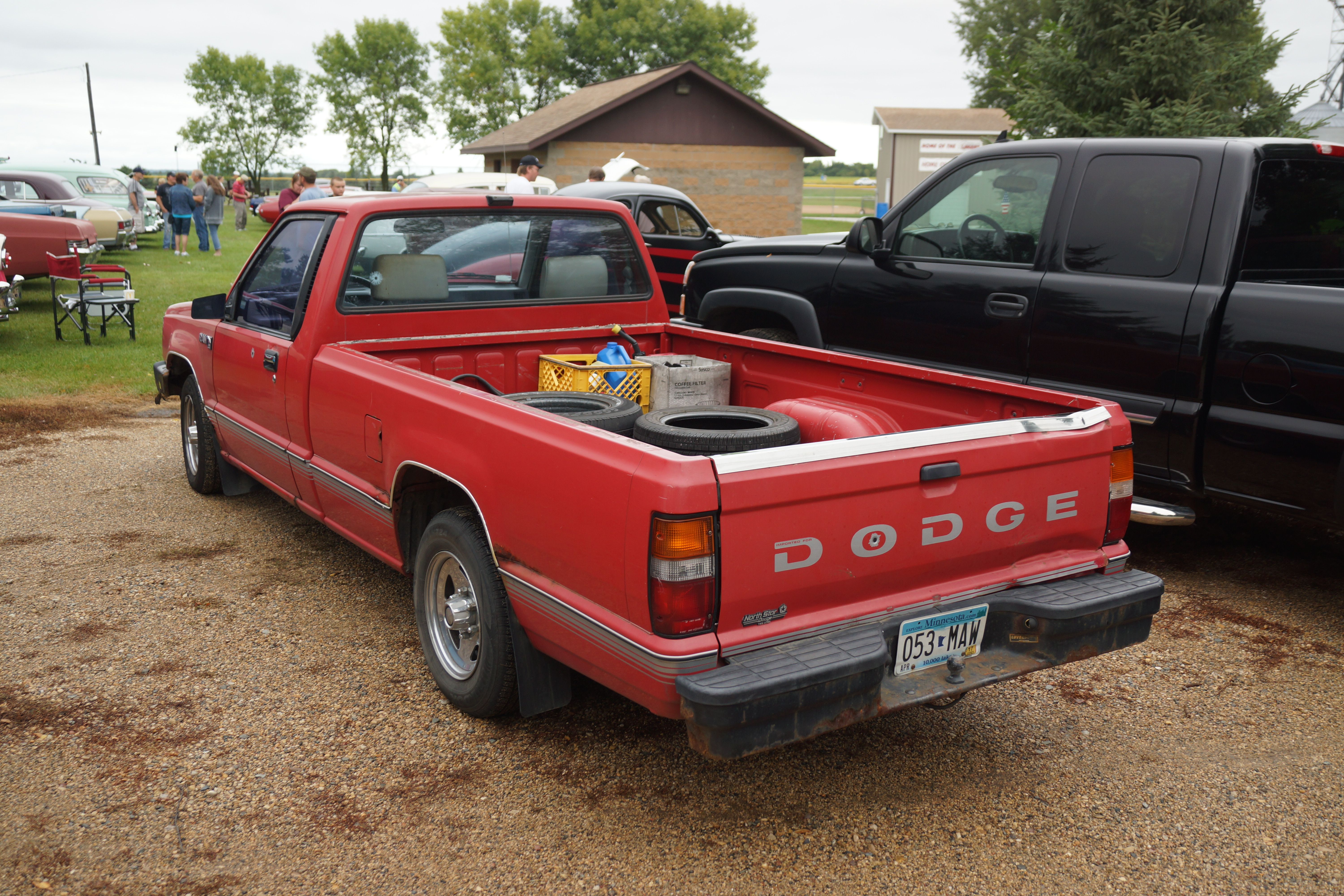 The Sunburg Trolls 8th Annual Classic Car Show & Swap, Sunburg Community Center in Sunburg, Minnesota (September 2016)